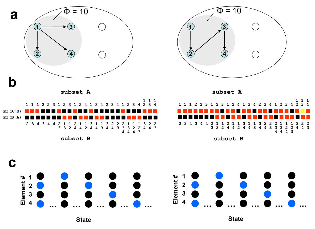 diagram about Tononi's information integration theory of consciousness.